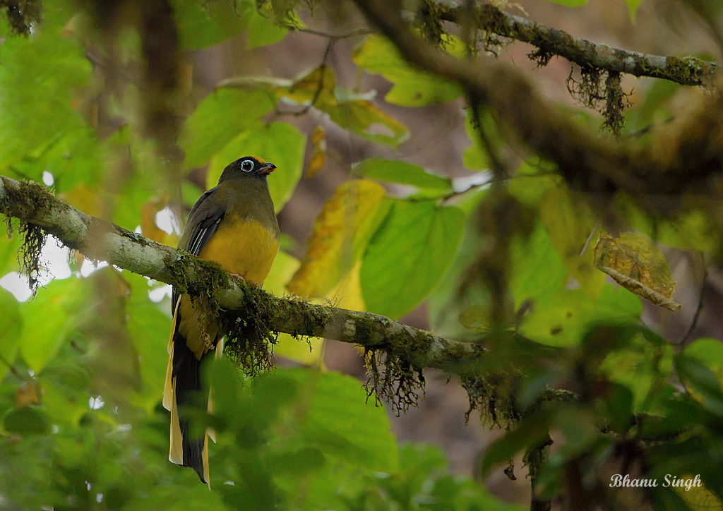 Ward's Trogon Harpactes wardi at Eaglenest Pass